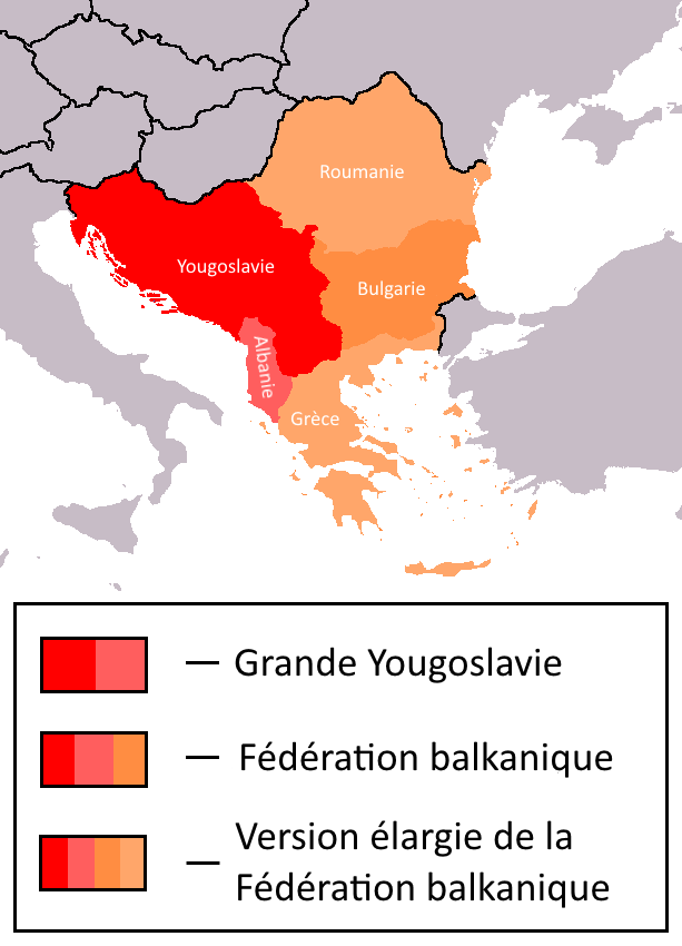 Map of Communist project of post-war Balkan Federation.